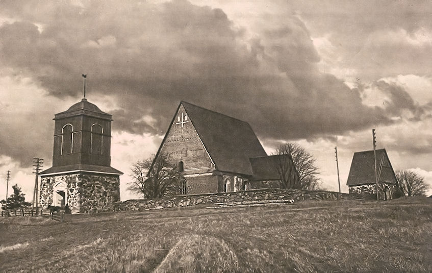 Holy Cross Church, Hattula, Finland